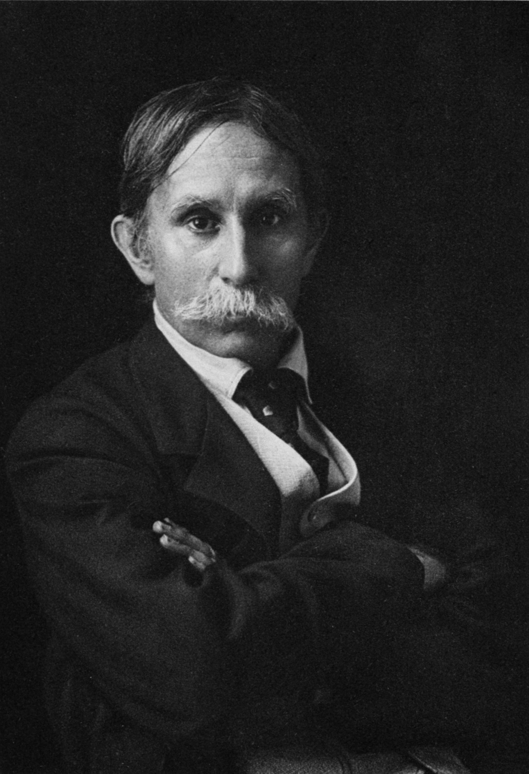 Frontispiece from DJVU pg 8 from The poems of Richard Watson Gilder (1908)